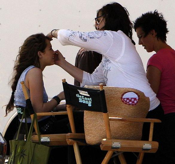 Miley Cyrus in make-up on the set of "The Last Song" at Tybee Beach, Savannah